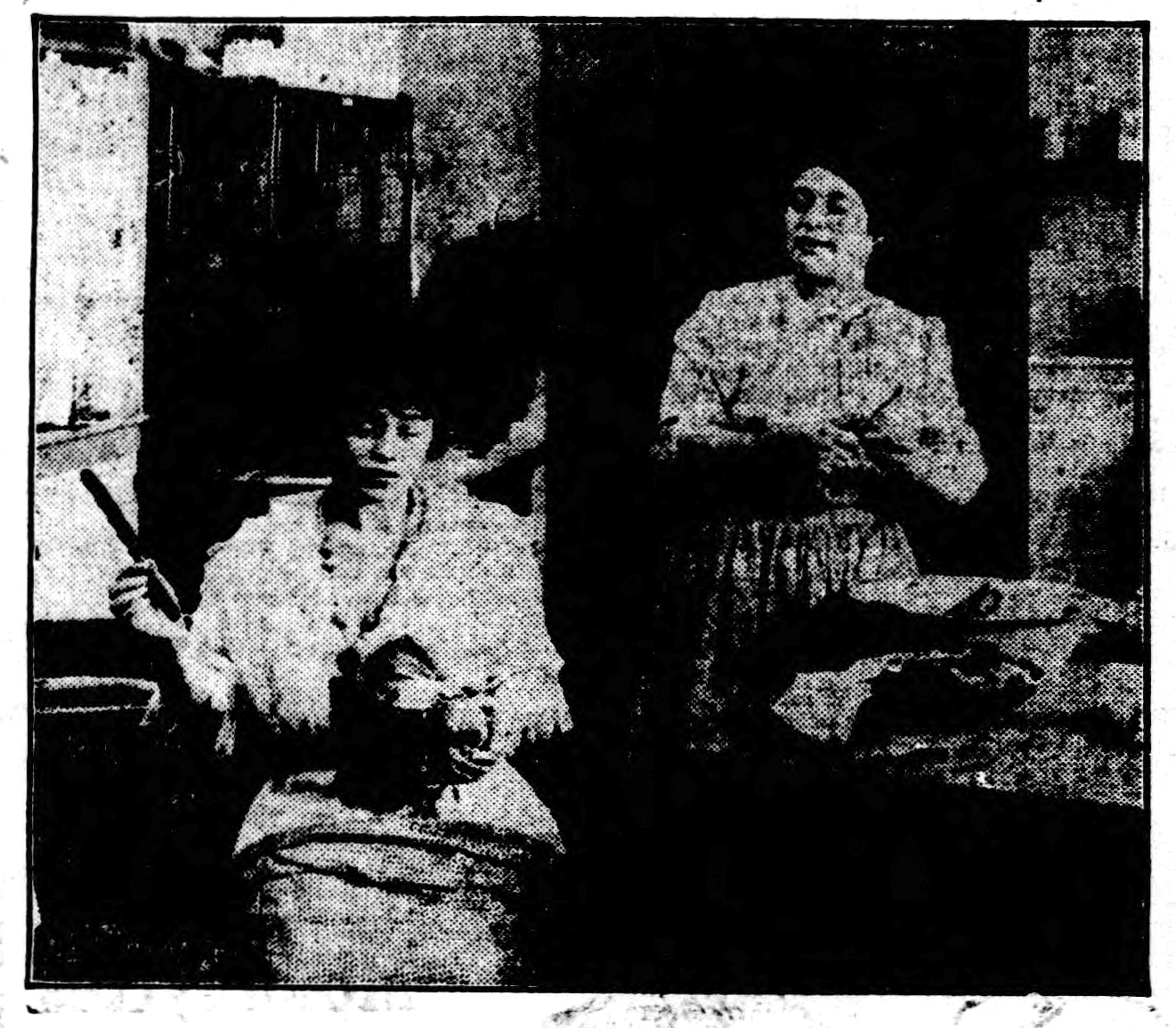 Mother is a 1914 silent film drama directed by Maurice Tourneur and starring Emma Dunn. This is a publicity image published in a contemporary newspaper.